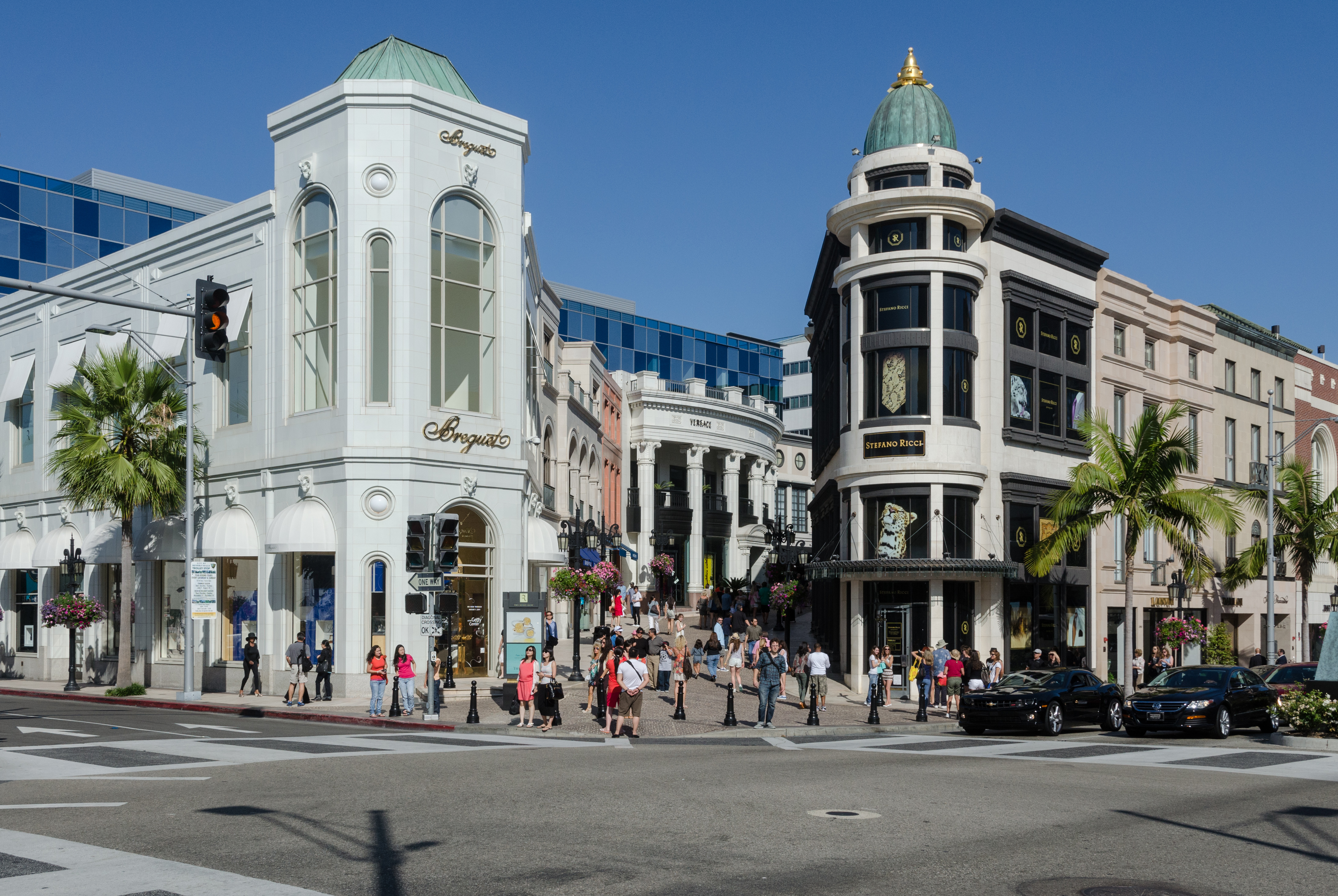 A west view of some of the buildings that form the luxury brand mall located at Rodeo Drive